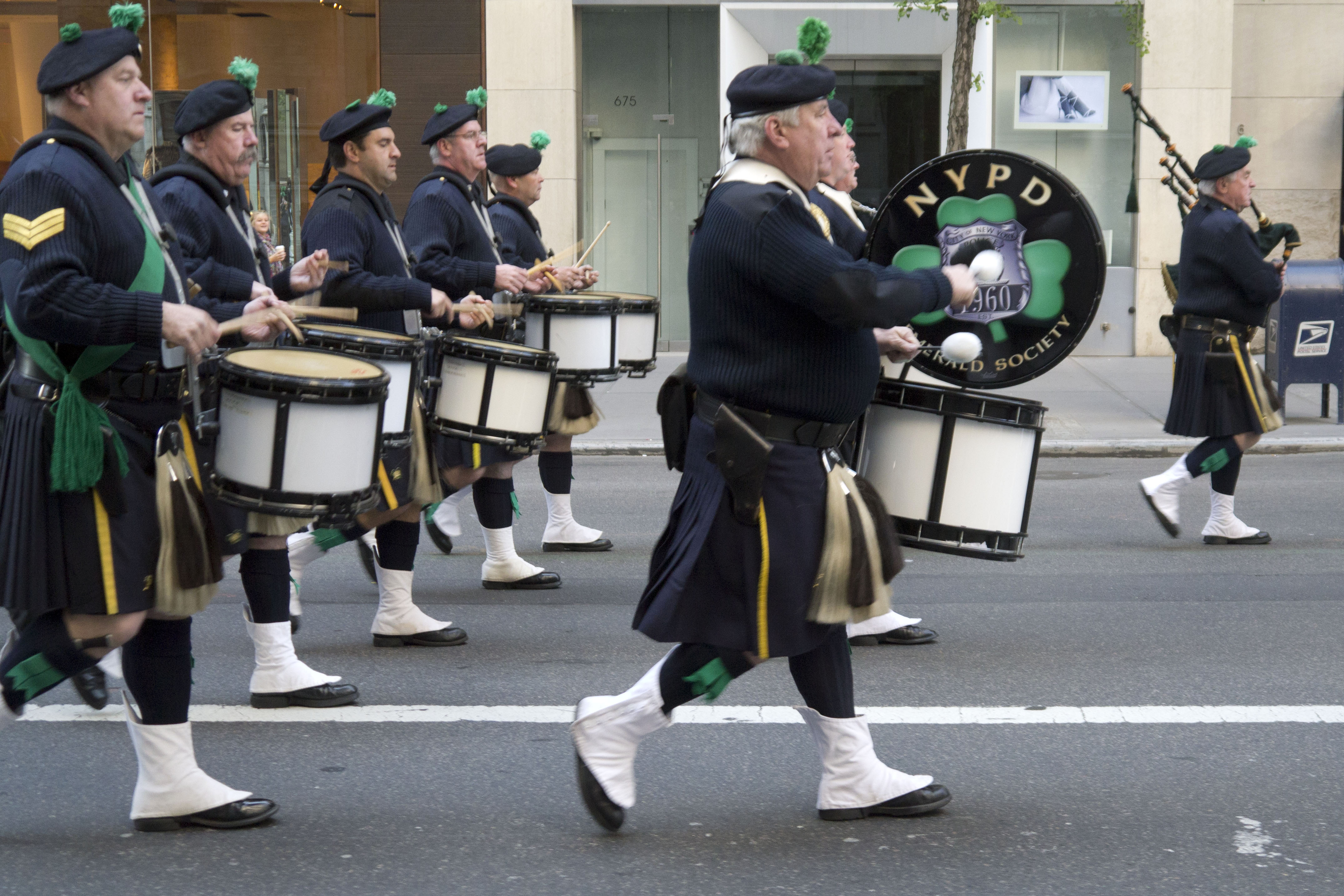 The New York Police Department Emerald Society, an organisation of Irish-American police was started on March 16, 1953. They parade New York playing Irish music ... on Scottish bagpipes!